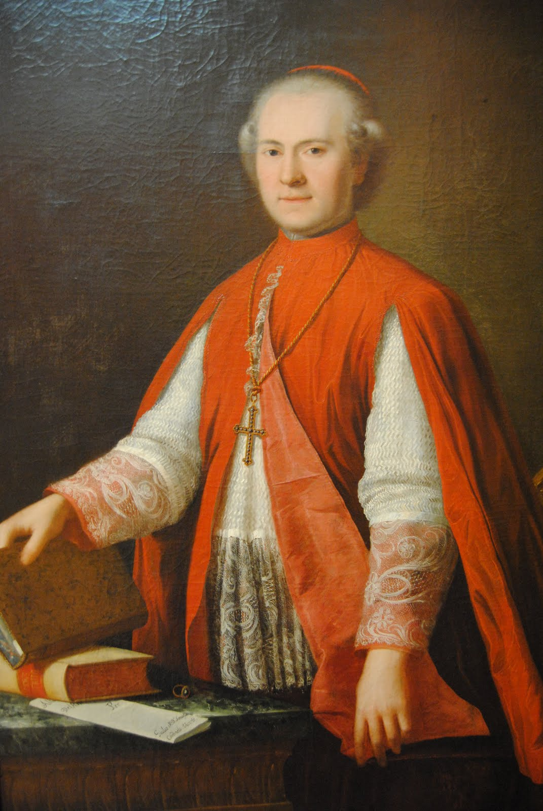 Giulio Maria della Somaglia (1744-1830), cardinal secretary of state